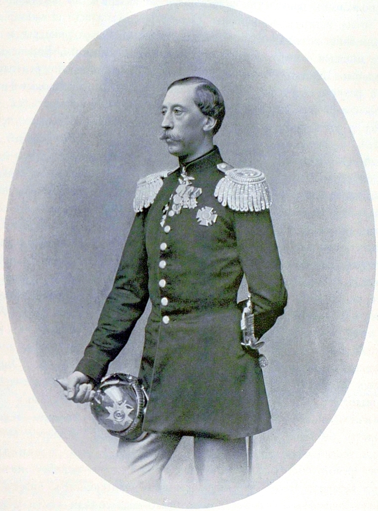 Maj. Gen. Vladimir Baryatinsky.